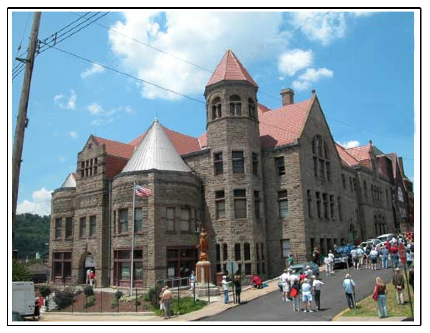 Braddock Carnegie Library July 5 2005 during celebration of 250th Anniversary of Braddock's Defeat on the battlefield area ~2 blocks to the right of this view. Photo: Fort Edwards Foundation by permission; telephone wires photoshopped out by me.